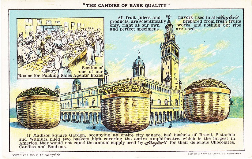 Advertising postcard for Huyler's candy company in 1909